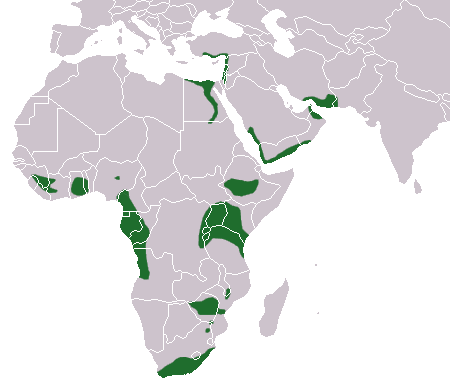 Egyptian Rousette (Rousettus aegyptiacus) range